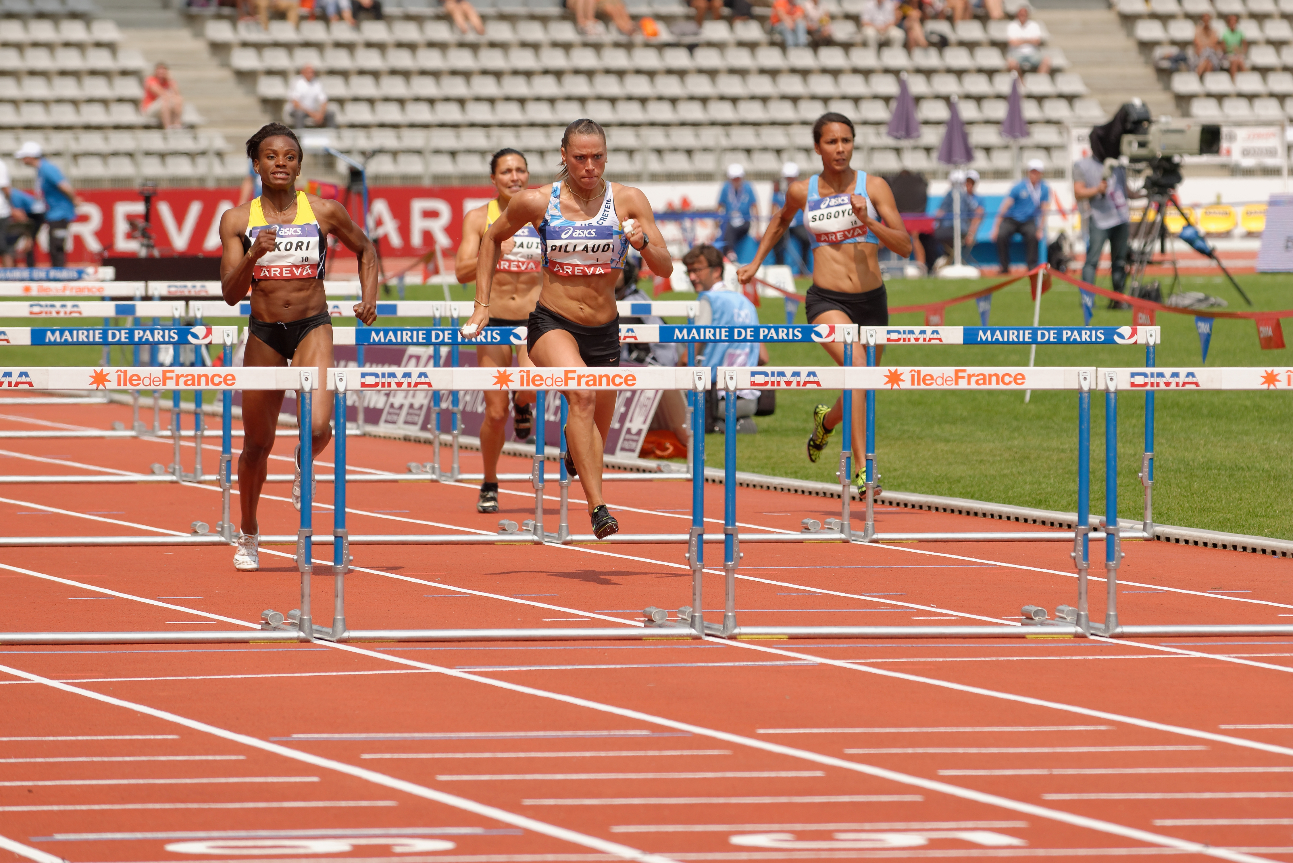 Cindy Billaud wins the second series of the 100 metres hurdles in 12"75 during the French Athletics Championships 2013 at Stade Charléty in Paris, 13 July 2013.